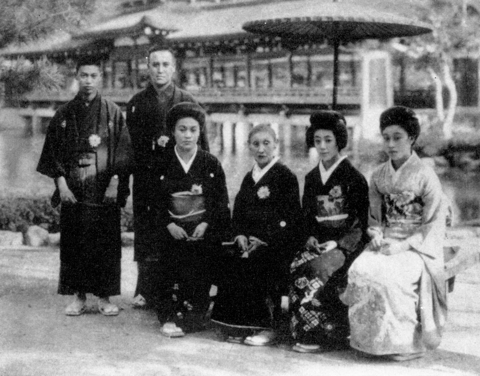 about 1927, Hiromichi KATAYAMA(Nō actor), Sakon KANZE(Nō actor), their mother Teruko KATAYAMA, and their grandmother Yachiyo INOUE(Buyō dancer,3rd)